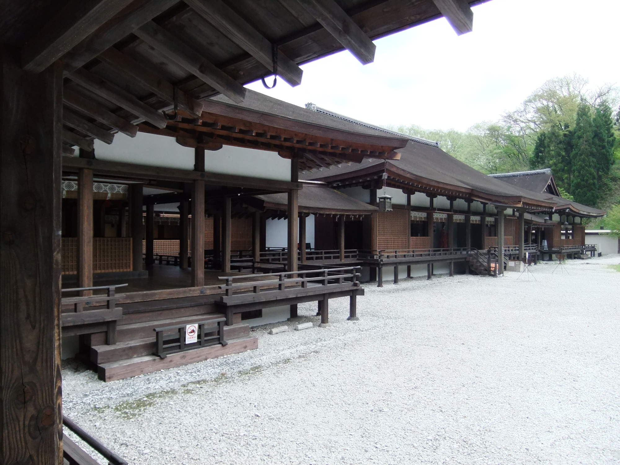 Kyara no Gosho at Esashi-Fujiwara Heritage Park